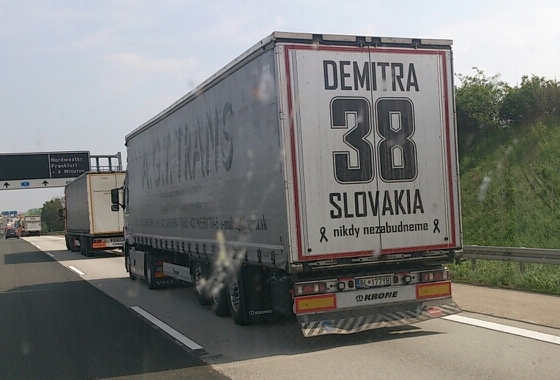 Tribute writing to Pavol Demitra on a Truck "We'll never forget" and his Team Number 38